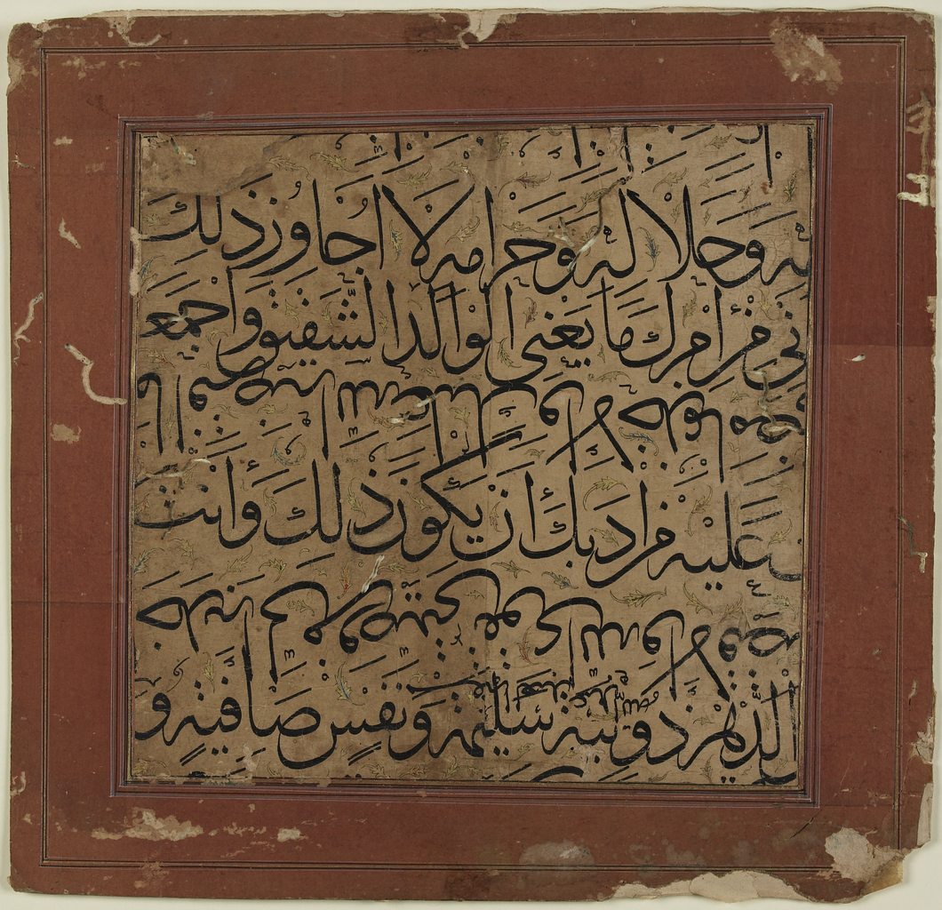 This calligraphic fragment includes six lines of script written right-side-up and up-side-down in Thuluth script in black ink on a beige sheet of folio pasted to an orange sheet backed by cardboard. Together, the six continuous lines of text in Arabic read: “A father speaks to a mother [and says] this is what is joyful to a tender and loving father and one who knows that this behavior is desirable. You, as their mother, must be a sound, healthy, and pure soul; you should implement these [manners] as my will in God's following; you should spend within what God limits in your life; and you should accept what is given, what is permitted and forbidden, and you must not disobey this.” These husbandly recommendations seek to promote goodness and piety in a woman who is also a mother. The saying belongs to the broader category of nasihat (advice) in Arabic moral literature. The signature on the fragment is up-side-down between the last two lines of text. The calligrapher 'Abdallah states that he has written the piece, but he does not provide a date. The calligrapher may be identified as 'Abdallah Lahuri, who was active in Lahore during the 18th century. Another fragment of his work, executed in Nasta'liq script, is also held in the collections of the Library of Congress. After the death of Aurangzeb (1618–1707), Mughal power was decentralized and royal patronage of calligraphy declined. New styles emerged in cities that included Lucknow, Hyderabad, and Lahore, where calligraphers such as 'Abdallah sought out patronage from local rulers and seem to have had the freedom to experiment with a number of different calligraphic scripts. Arabic calligraphy; Arabic manuscripts; Families; Illuminations; Islamic calligraphy; Islamic manuscripts; Manners and customs